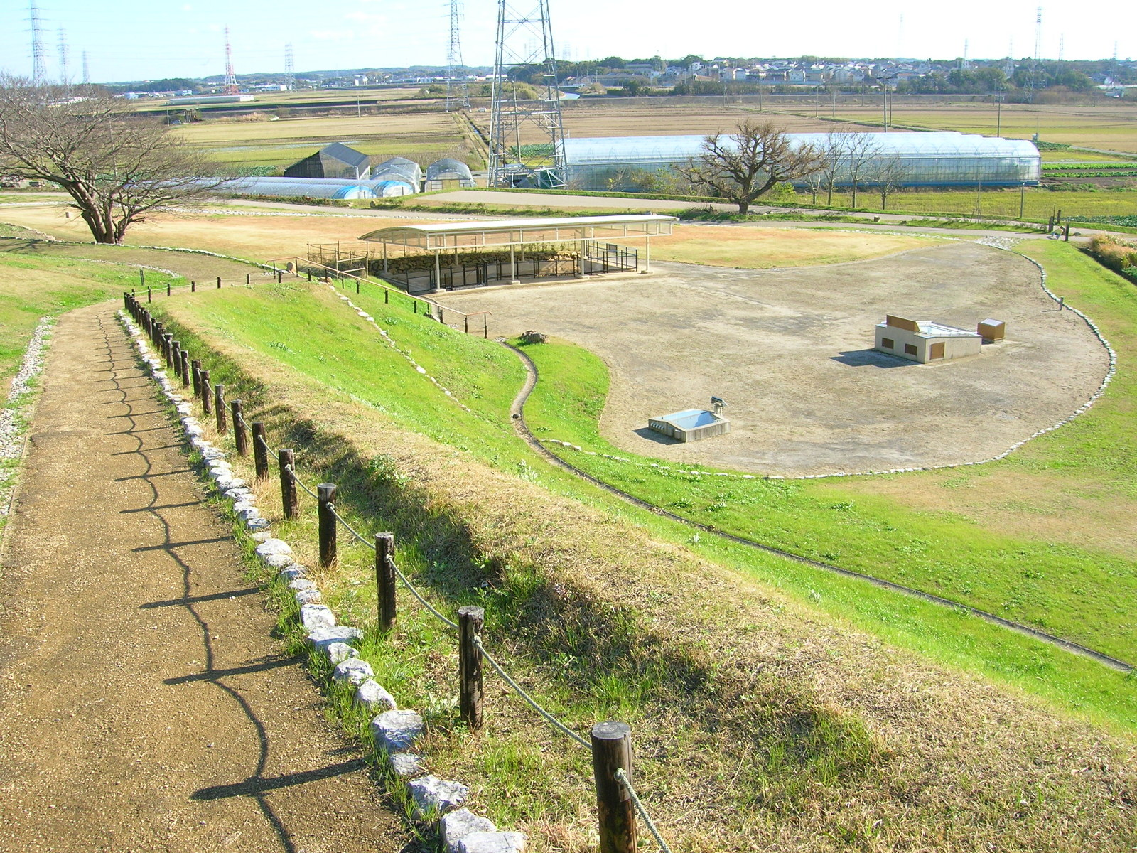 Yoshigo Kaizuka (Yoshigo Shell Mound). Loc: Tahara city, Aichi Prefecture, Japan. 吉胡貝塚 撮影場所 愛知県田原市